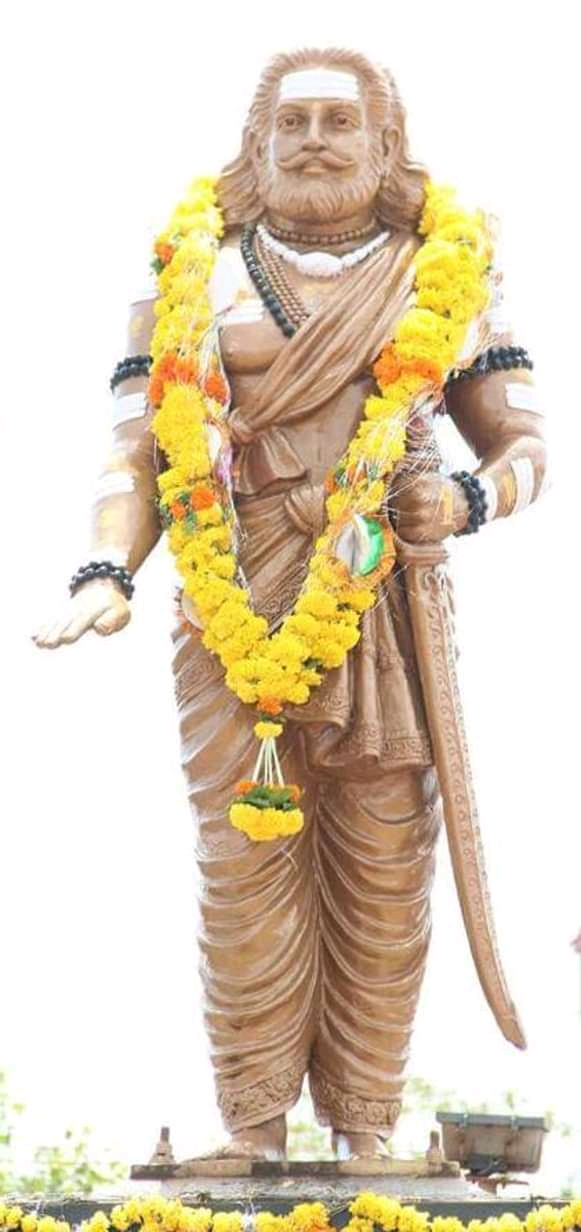 Madivala Machideva